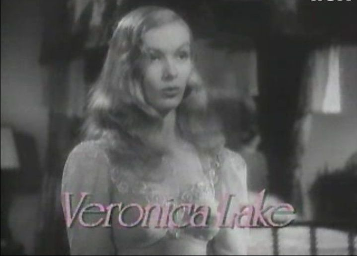 Screenshot of Veronica Lake from the trailer for the film I Married a Witch (1942).